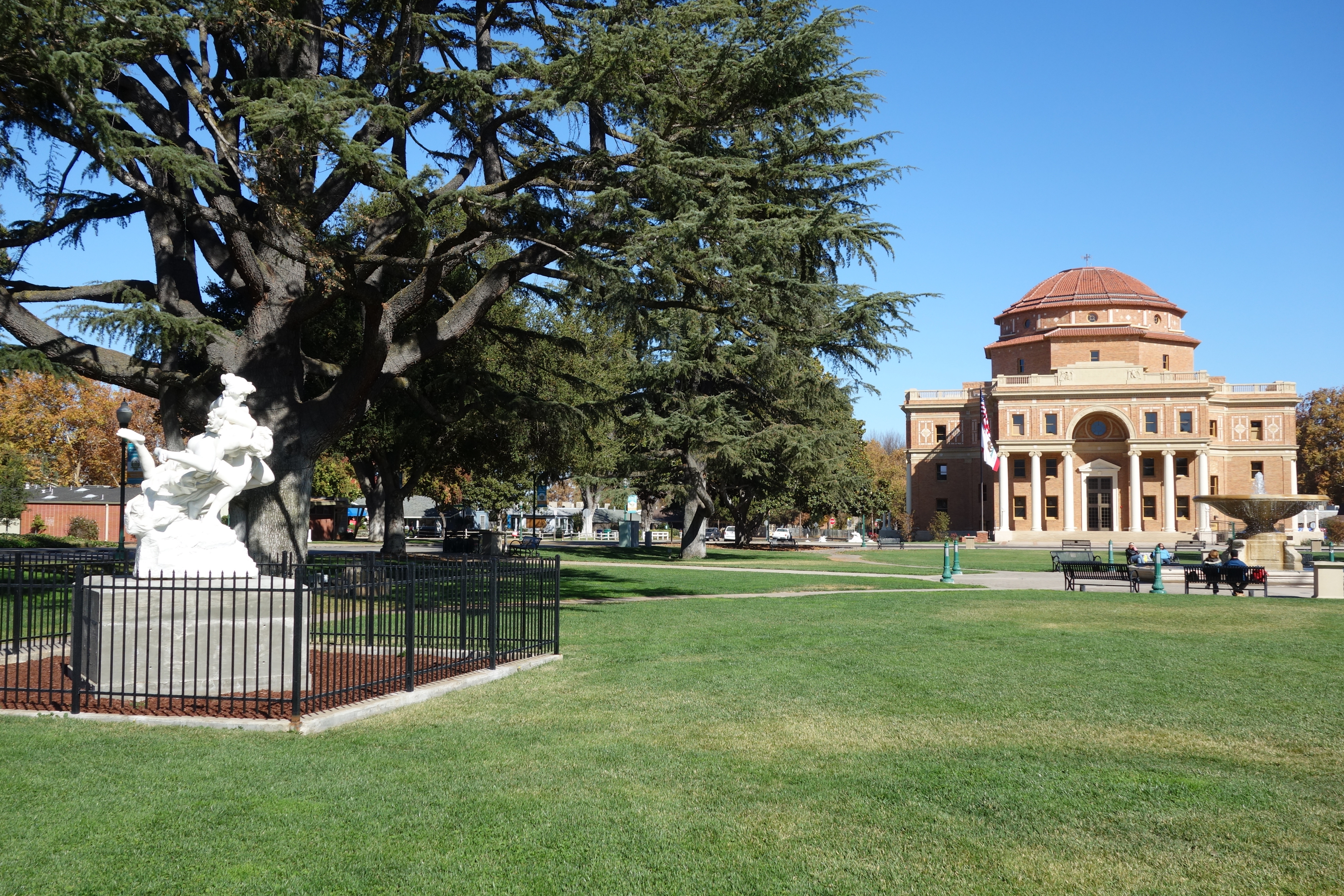 General view of Sunken Gardens, Atascadero, California, USA.